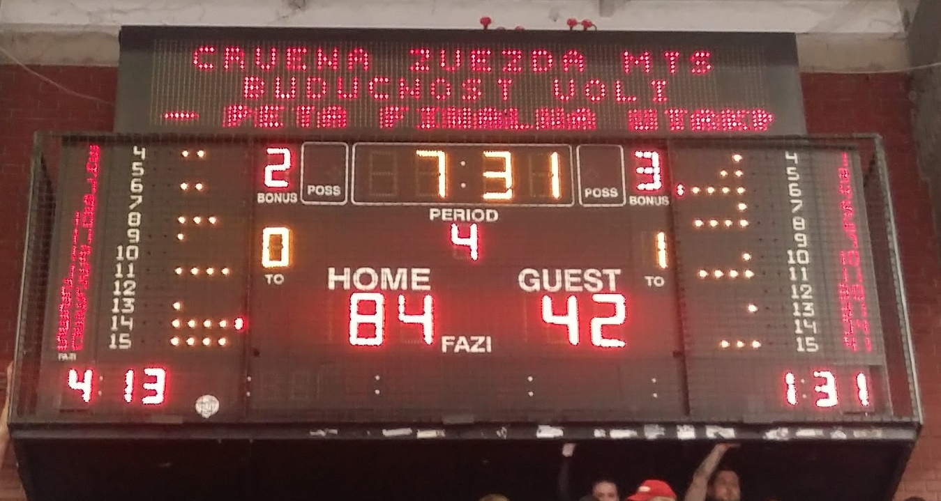 ABA league finale 2019, famous result ever seen in finals